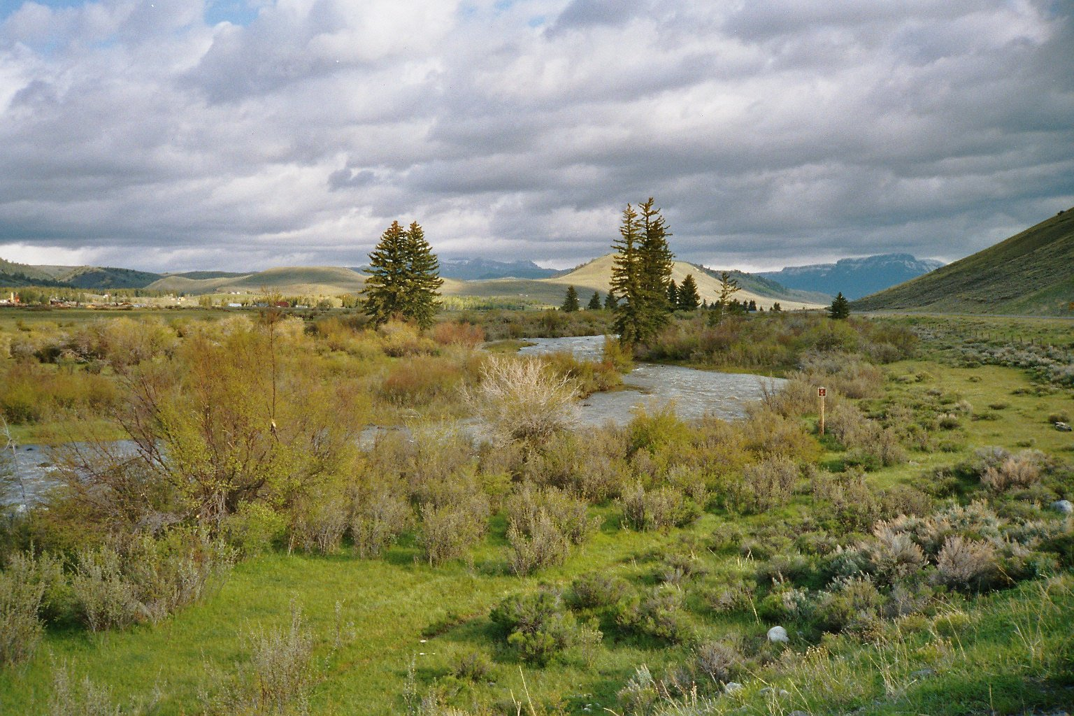 Fremont County WY ,Wind River Res.